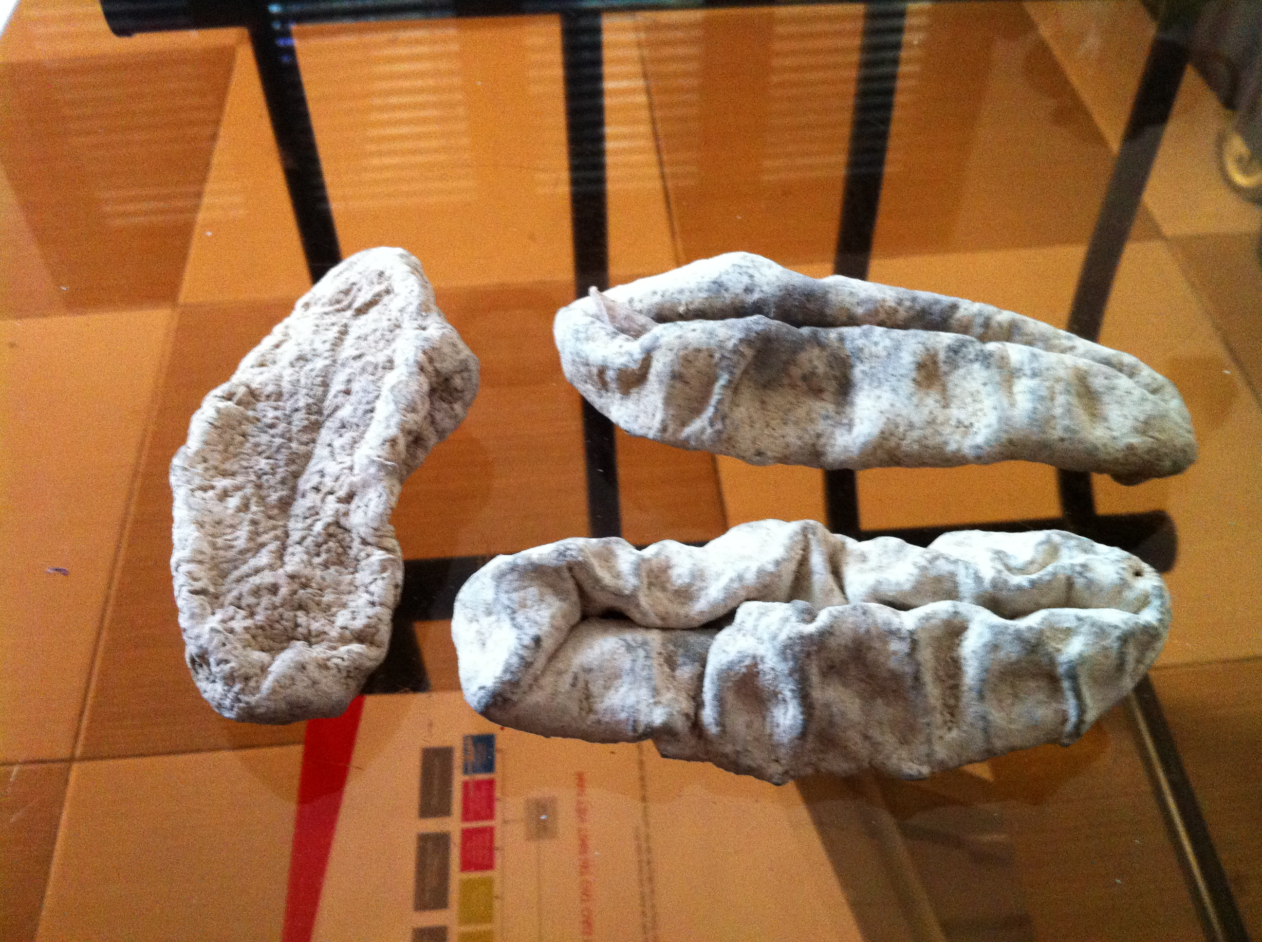 Holothuria nobilis, white, dried